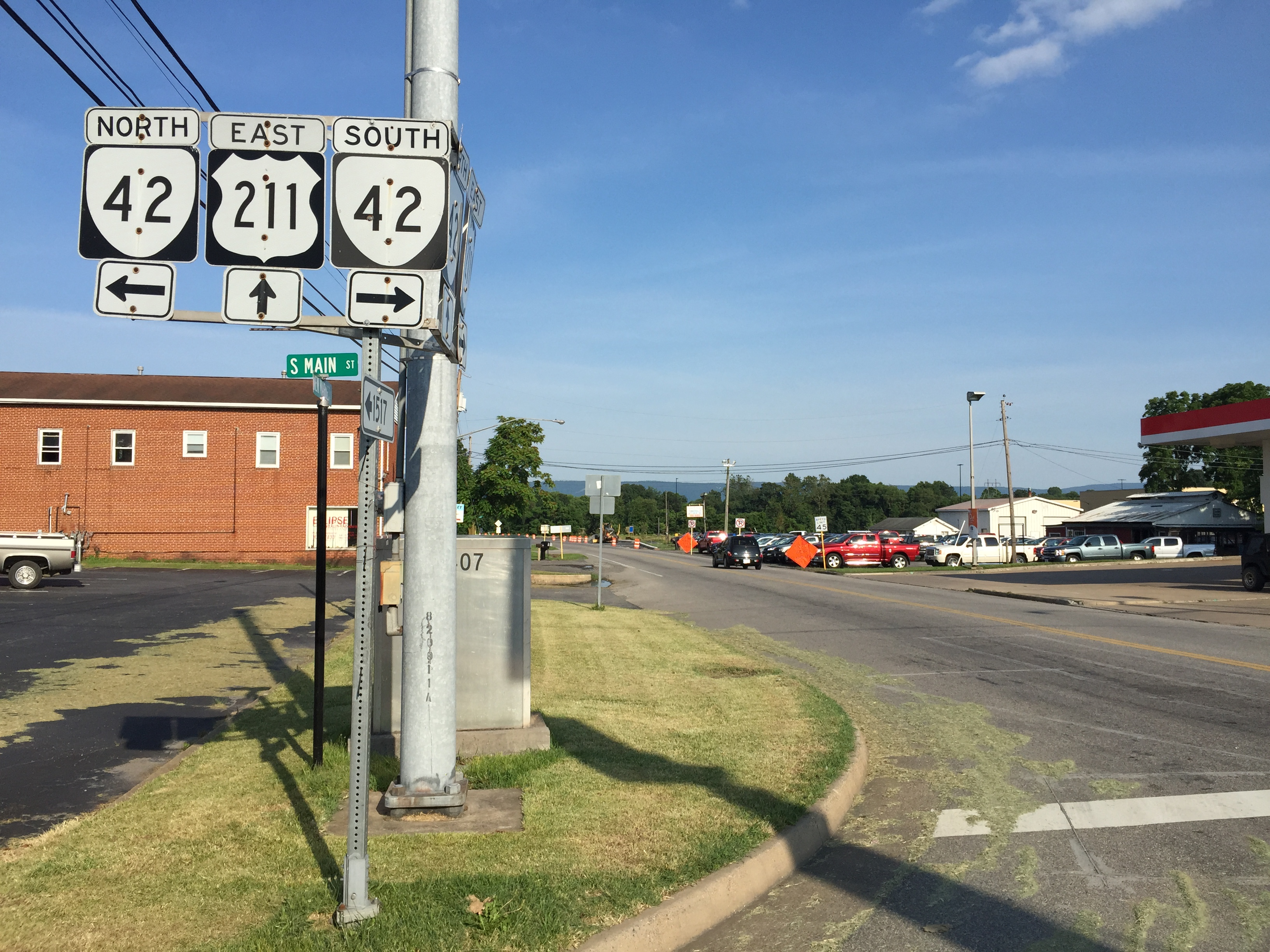 View east along Virginia State Route 211 (New Market Road) at Virginia State Route 42 (Main Street) in Timberville, Rockingham County, Virginia